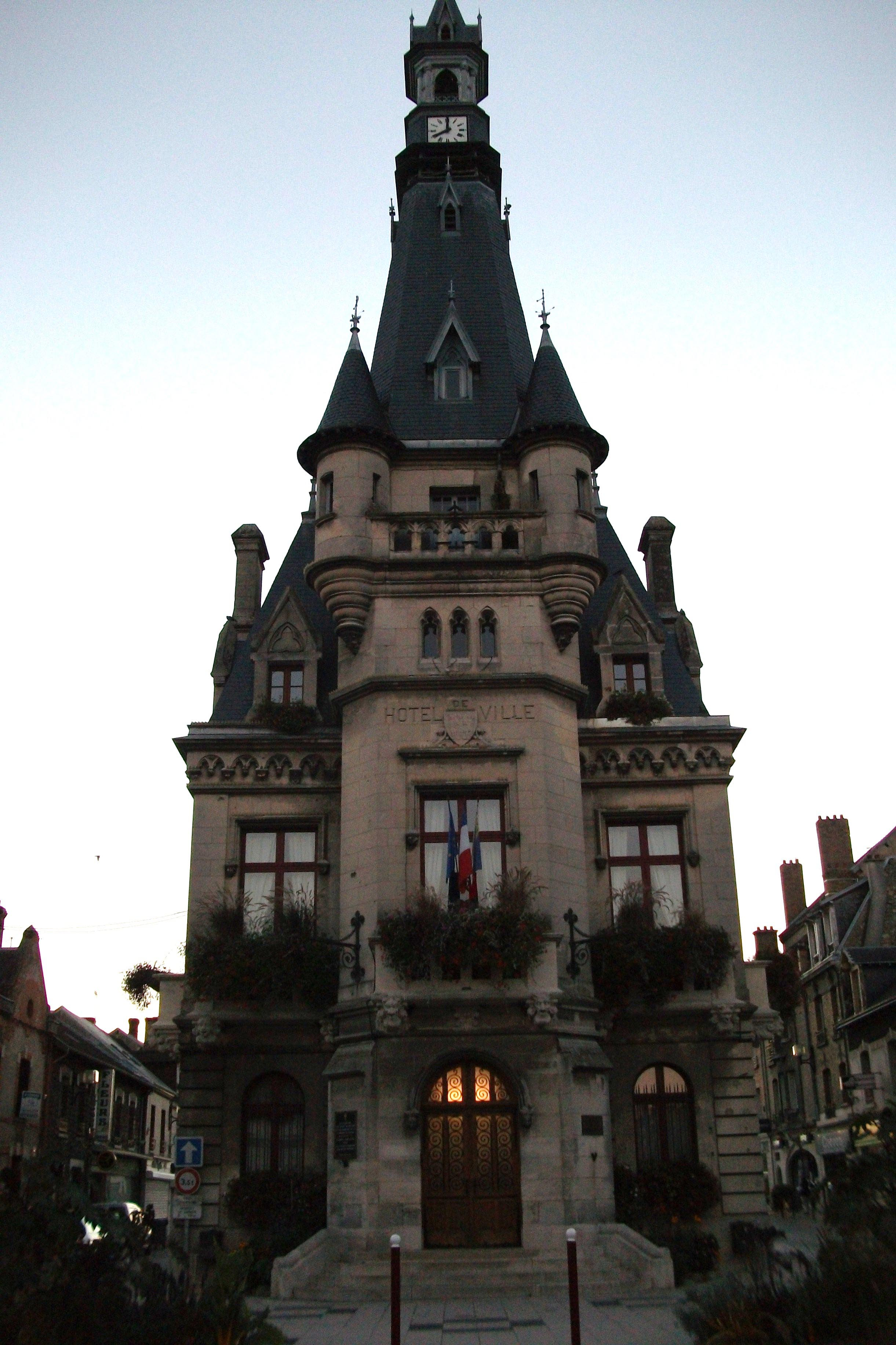 Mairie de Fismes, sa façade vue de l'est.